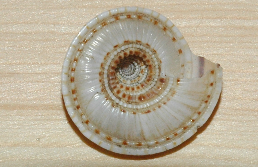 architectonica perspectiva